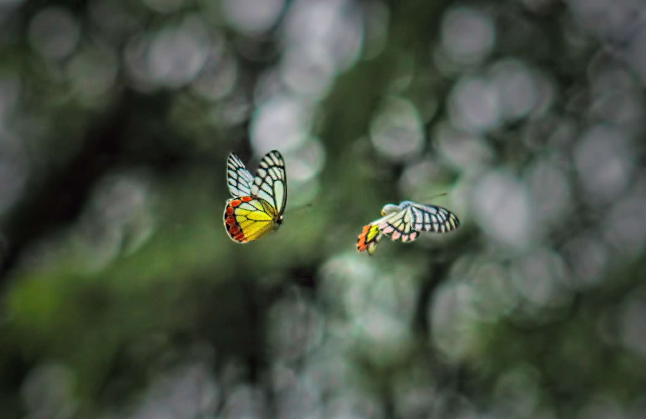 Two common Jezebels in flight, showing both ventral and dorsal surface of the wings